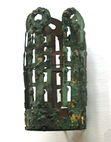 Kofun period crown, 5th century Japan.